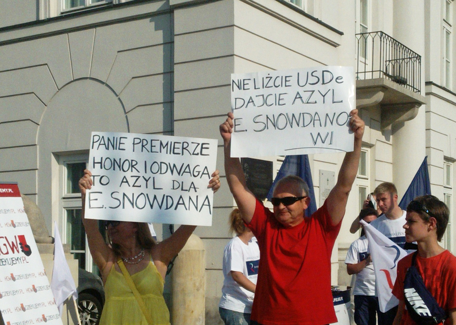 Edward Snowden's supporters in Warsaw, 5 July 2013